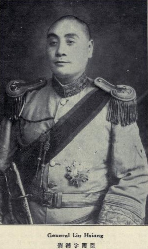 Liu Xiang, Fuchen (1890 - 1938)